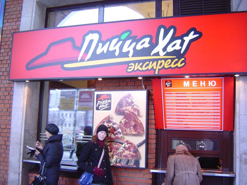 A Pizza Hut Express in Moscow, Russia